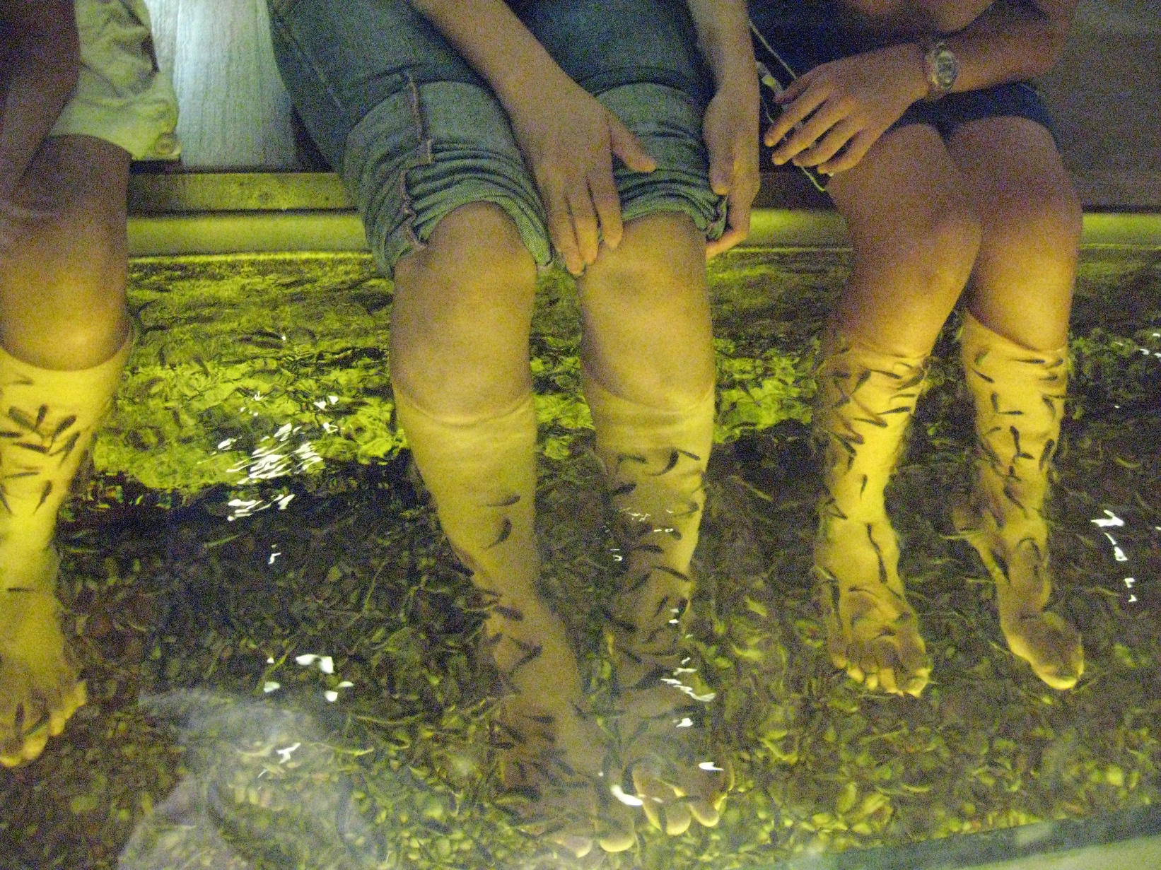 Garra rufa. Now this is the recent fads in Singapore - and Jakarta too. Some "spas" make a big fish pond and put in thousands of what they call "doctor fish" in it.